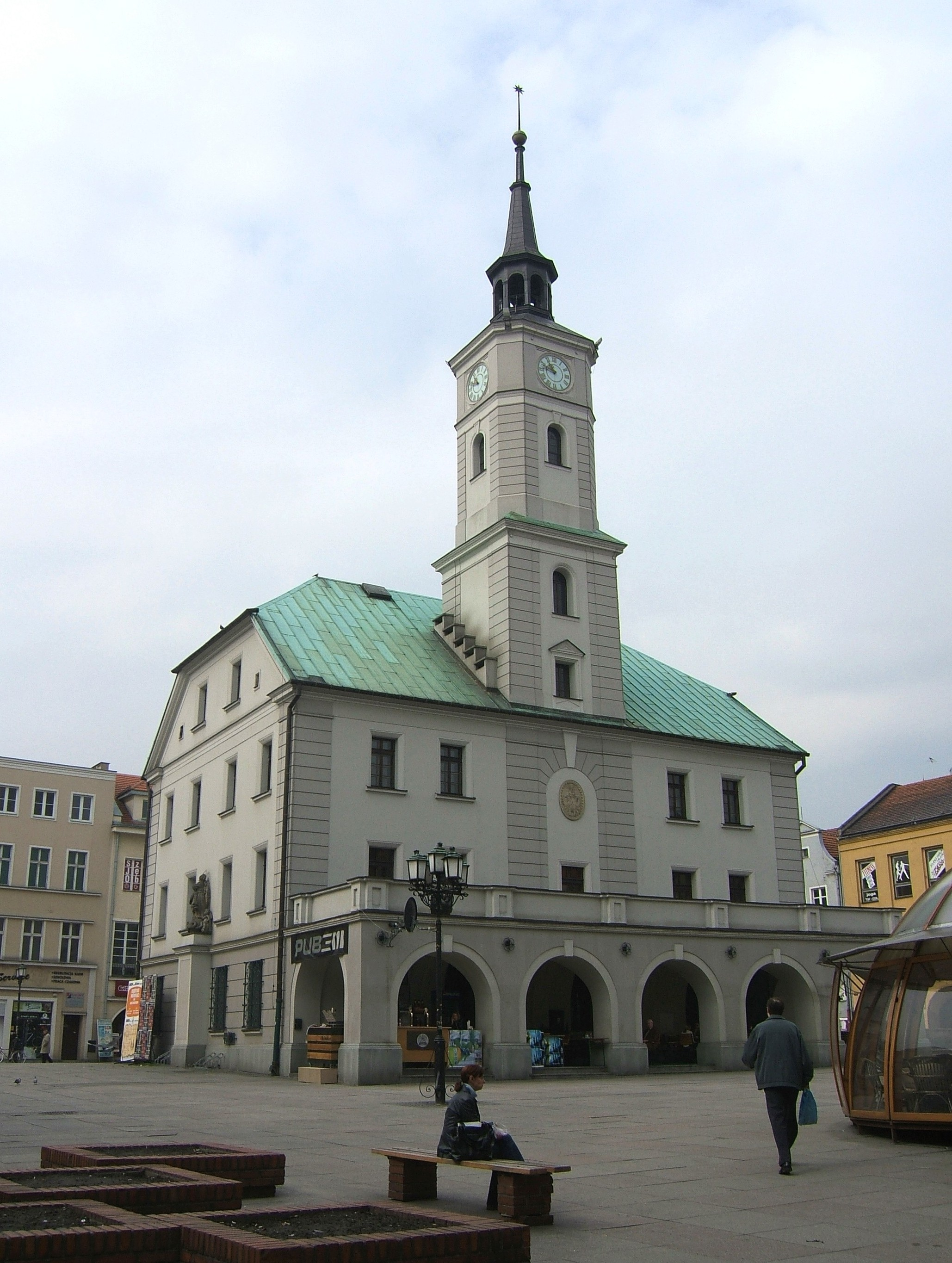 Gliwice's town hall from 1784 at the market square.